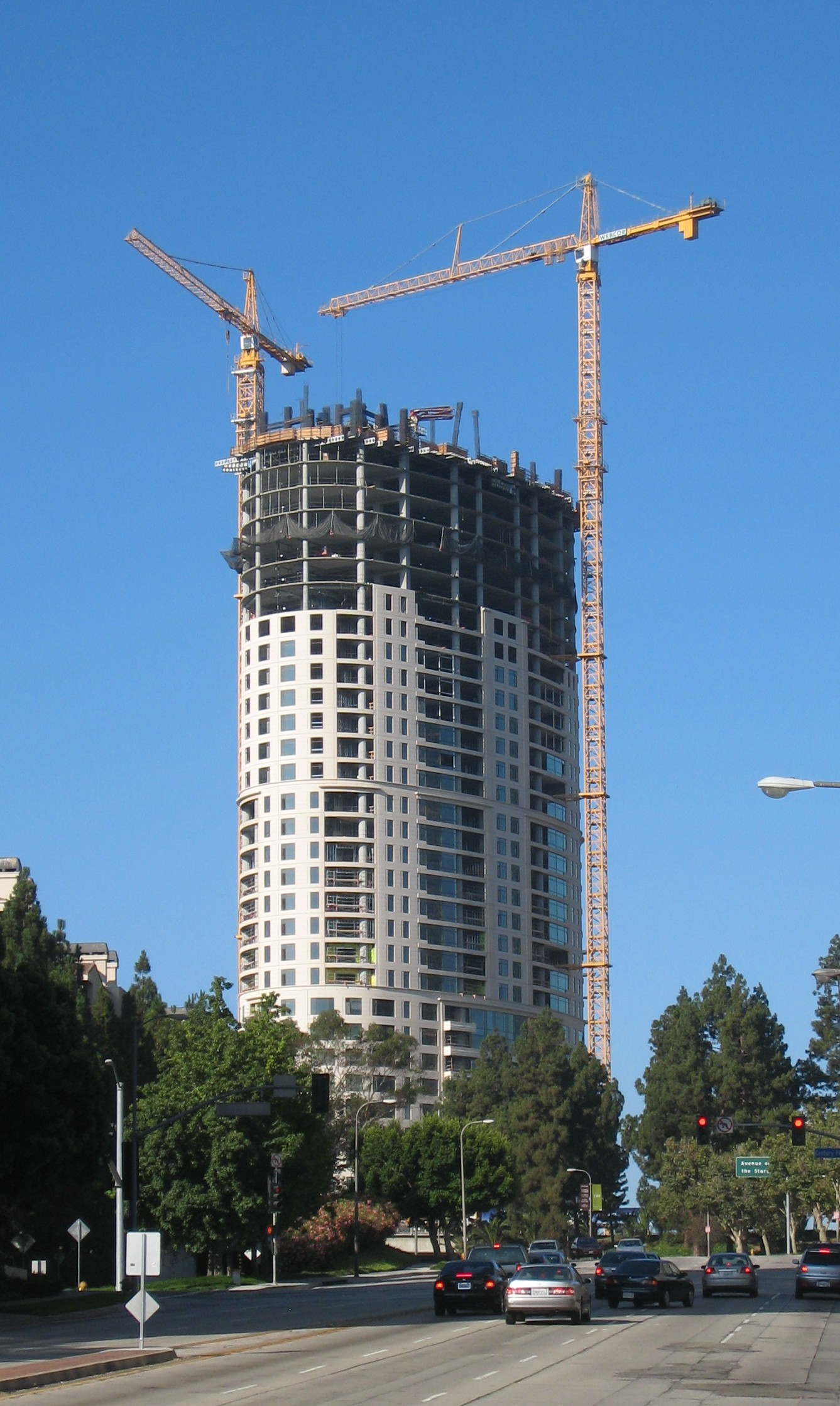 "The Century" — a luxury high rise condominium building under construction in Century City, Los Angeles, California.